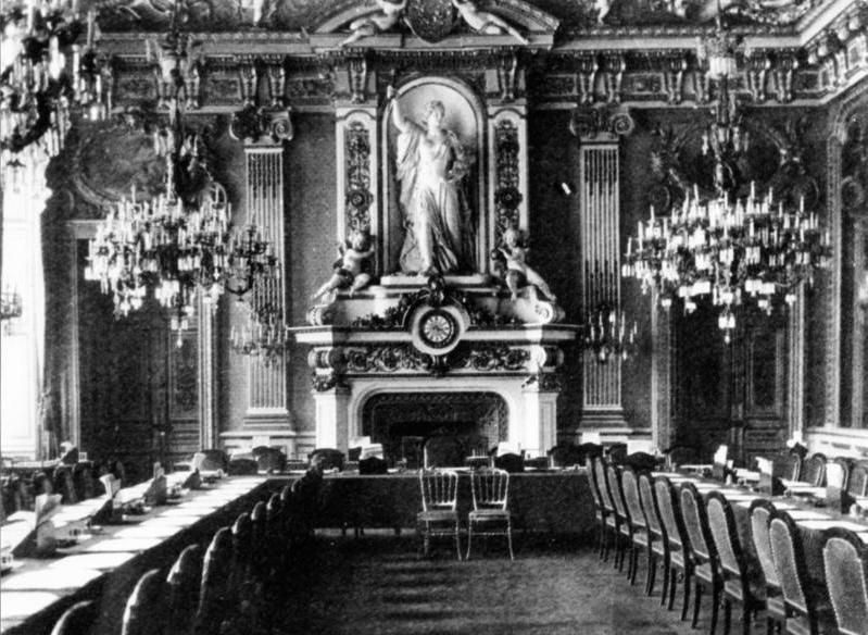 This description has been identified as biased or incorrect: NS-Propaganda: "peace treaty dictated by the imperialistic winner states"Sitzungssaal der Friedenskonferenz in Versailles